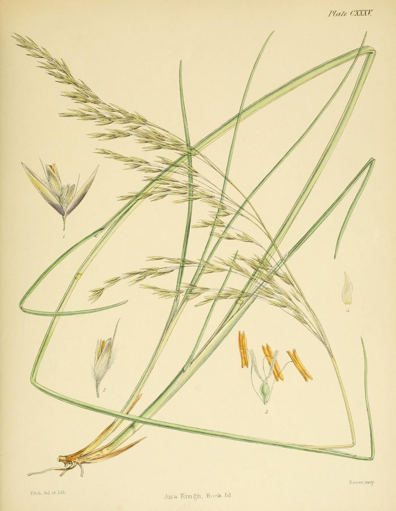 jpg of Plate CXXXV of Hooker's Flora Anatarctica. Aira kingii Hook. fil.